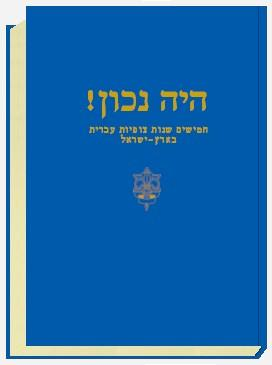 Cover of the book "היה נכון" Israeli - Be Prepared, by Hemda Alon about 50 years of Scouting in Israel.